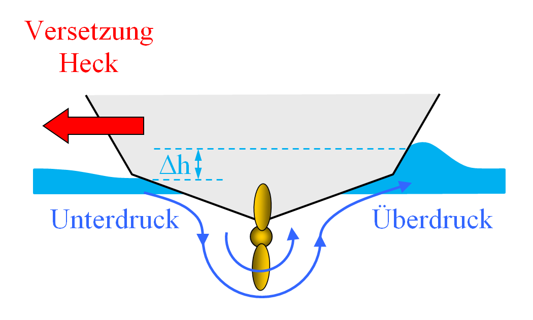 Propeller walk generated by a "hil"l caused by high pressure and a "valley" caused by under pressure